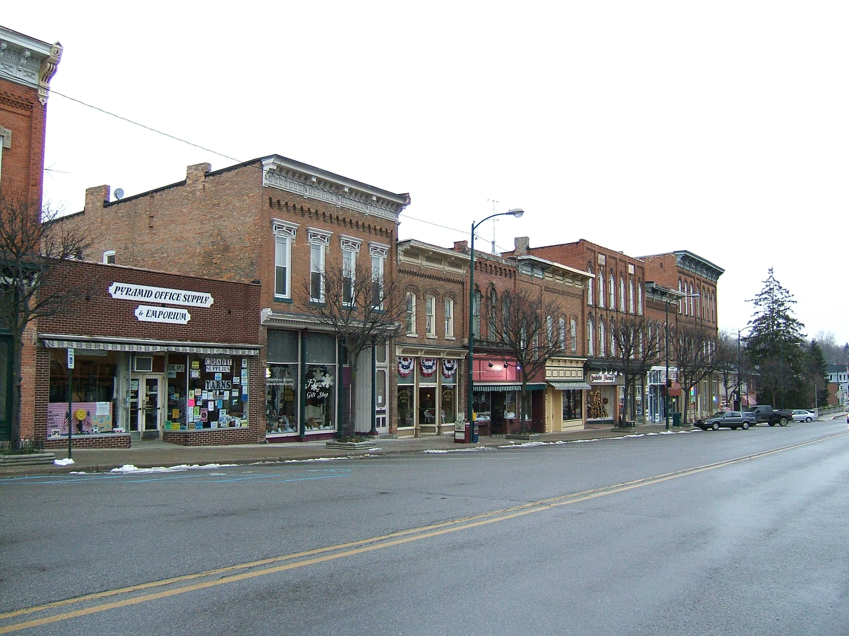 Smalltown main street